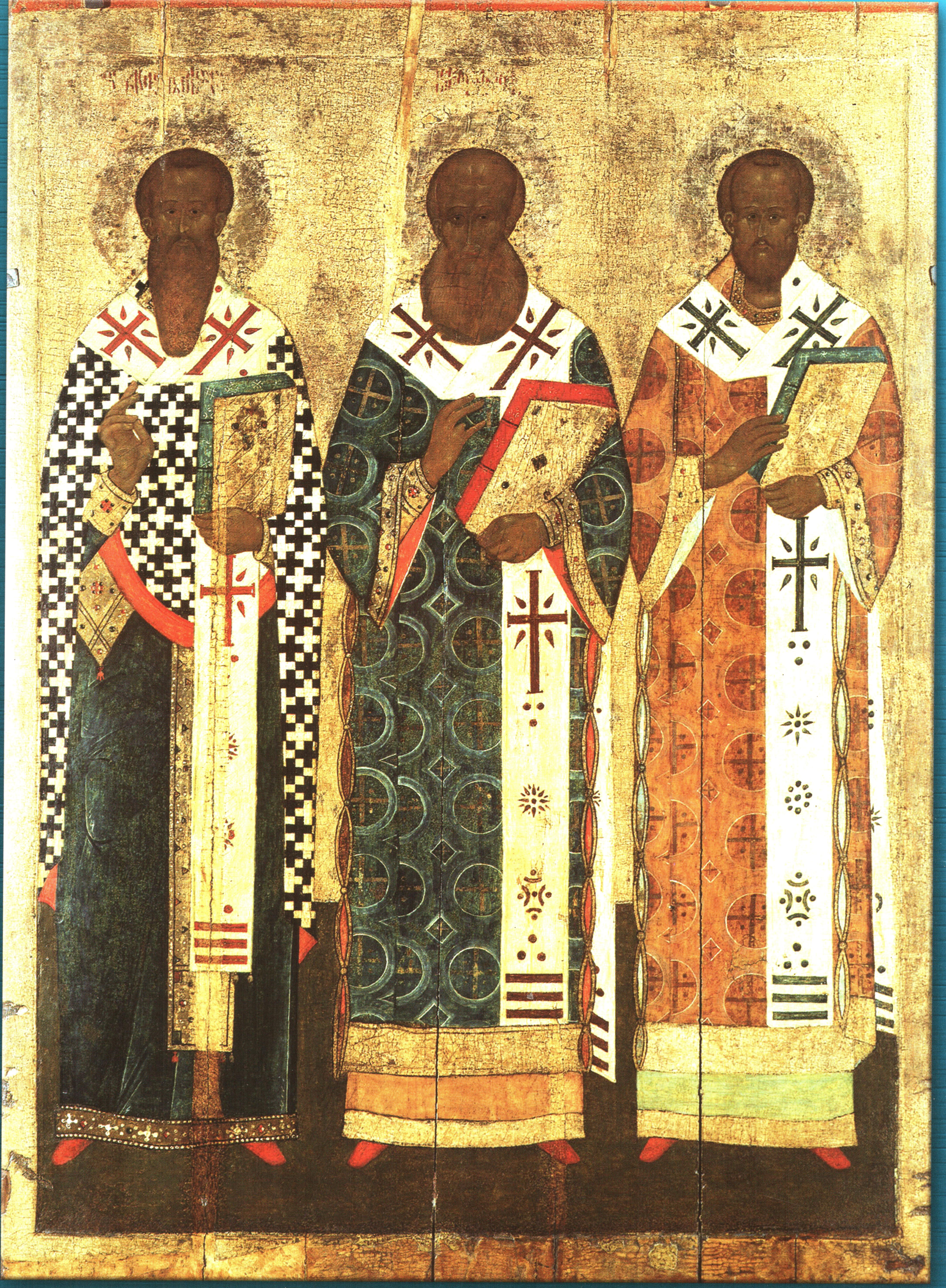 Basil of Caesarea, Gregory of Nazianzus, John Chrysostom. Orthodoxy icon.